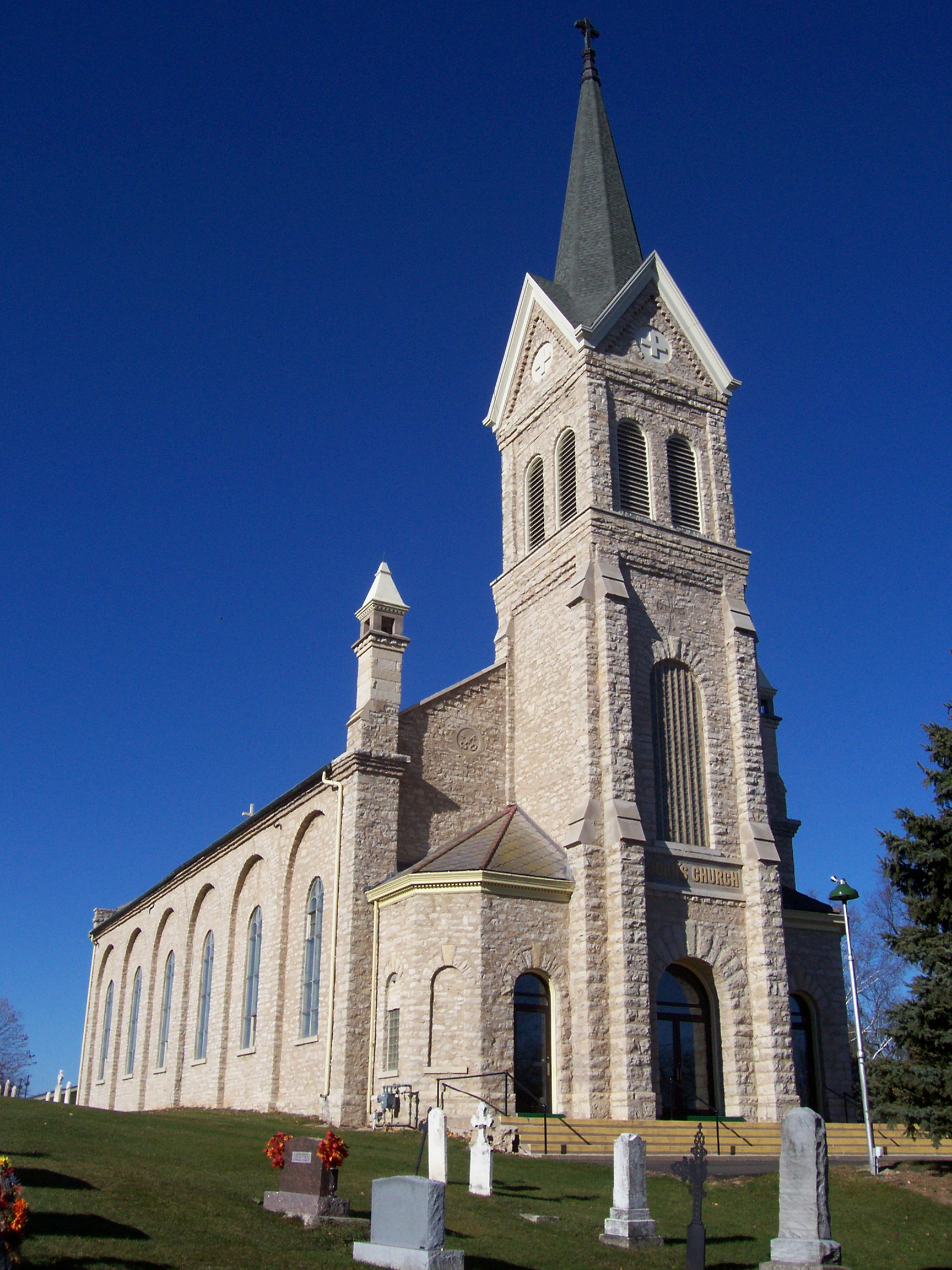 St. John the Baptist Roman Catholic Church in Johnsburg, Wisconsin, USA. It is listed on the Register of Historic Places. Related images are Image:StJohnTheBaptistParishRHPMarker.jpg and Image:FatherCasperRehrlMarker.jpg.